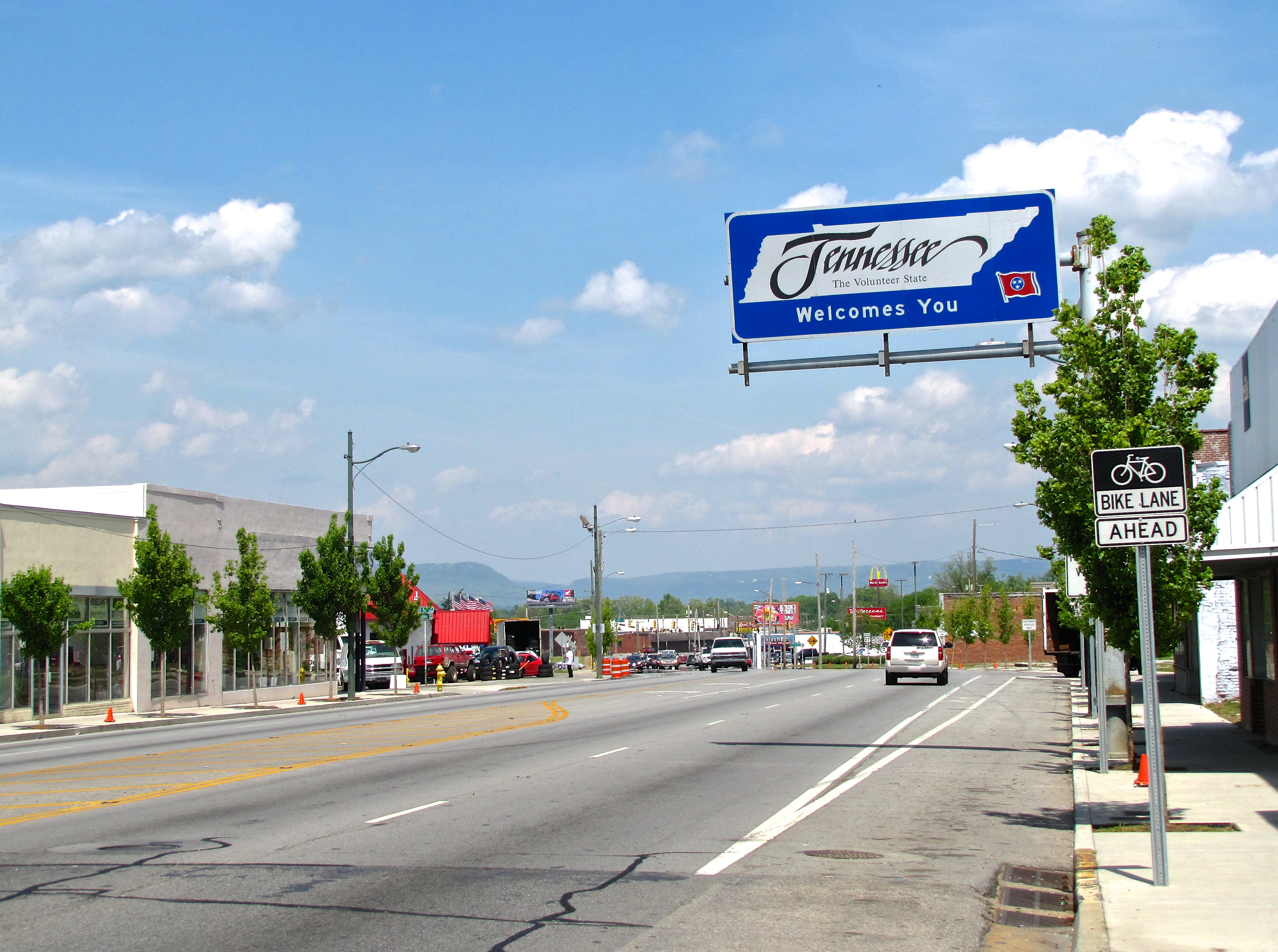 The Tennessee-Georgia state line dividing Rossville, Georgia, and Chattanooga, Tennessee, along U.S. Route 27 in the southeastern United States.